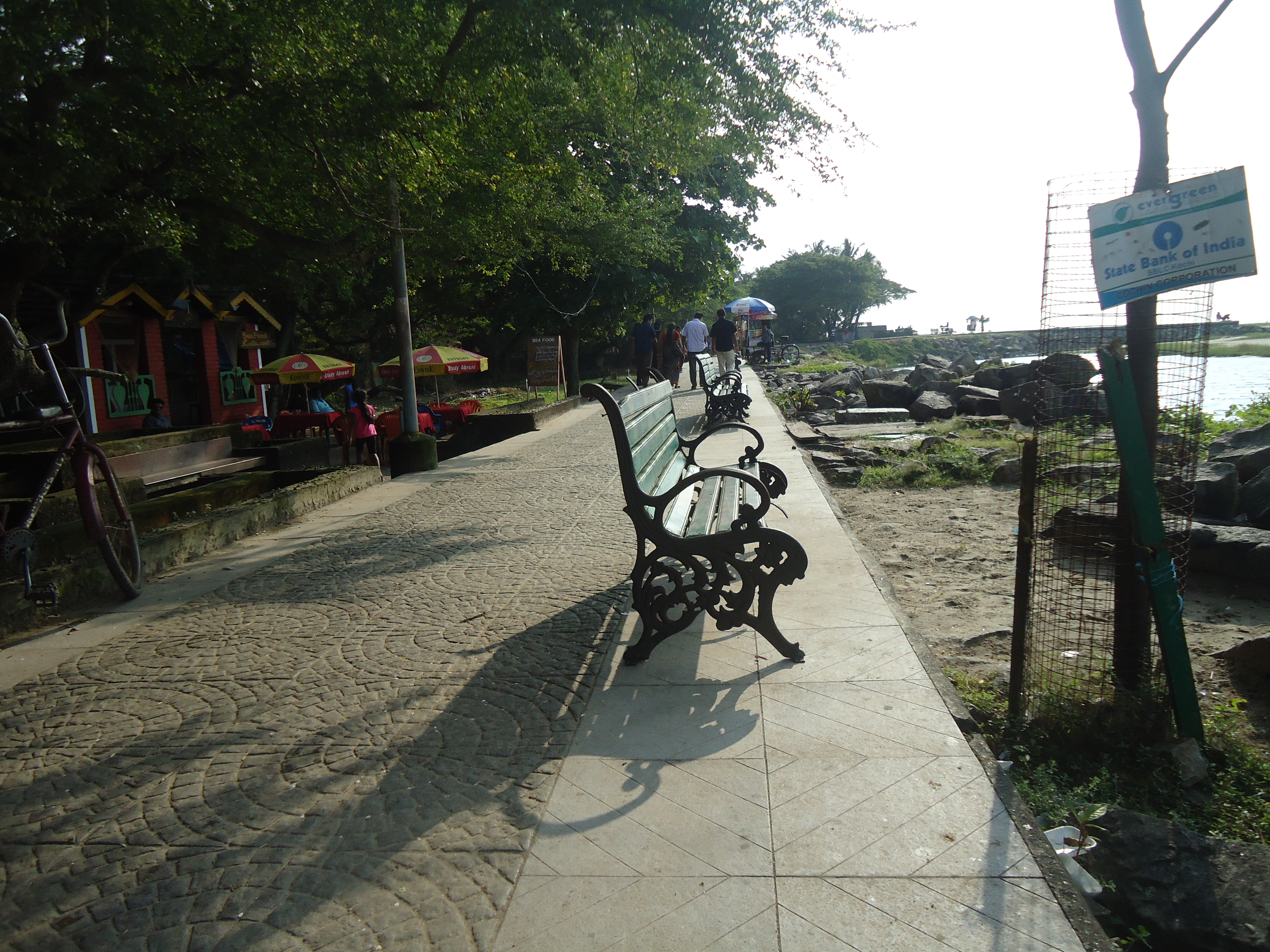 Wiki Hackathon Photo Walk Photos Fort Kochi Beach Walk Way